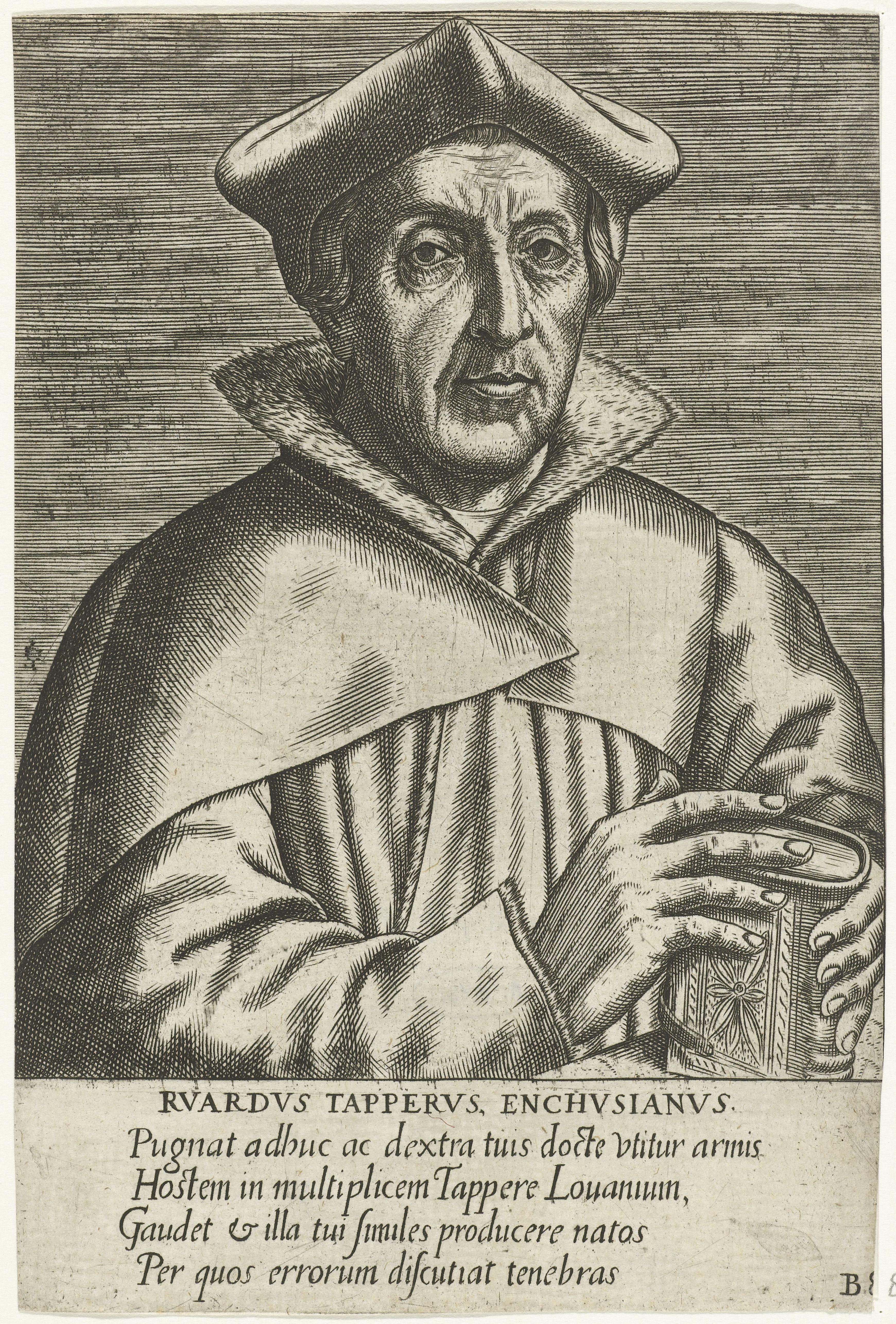 Portrait of Ruard Tapper engraved by Philip Galle (1572)